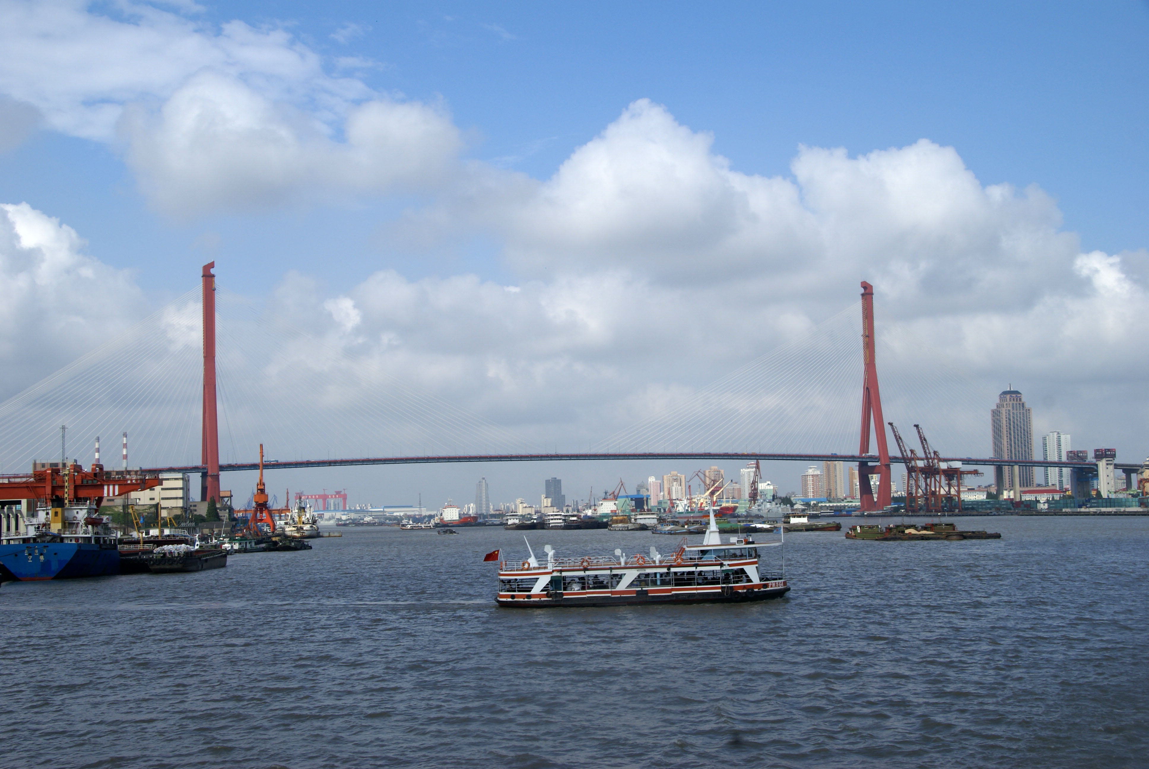 The Yangpu Bridge in Shanghai